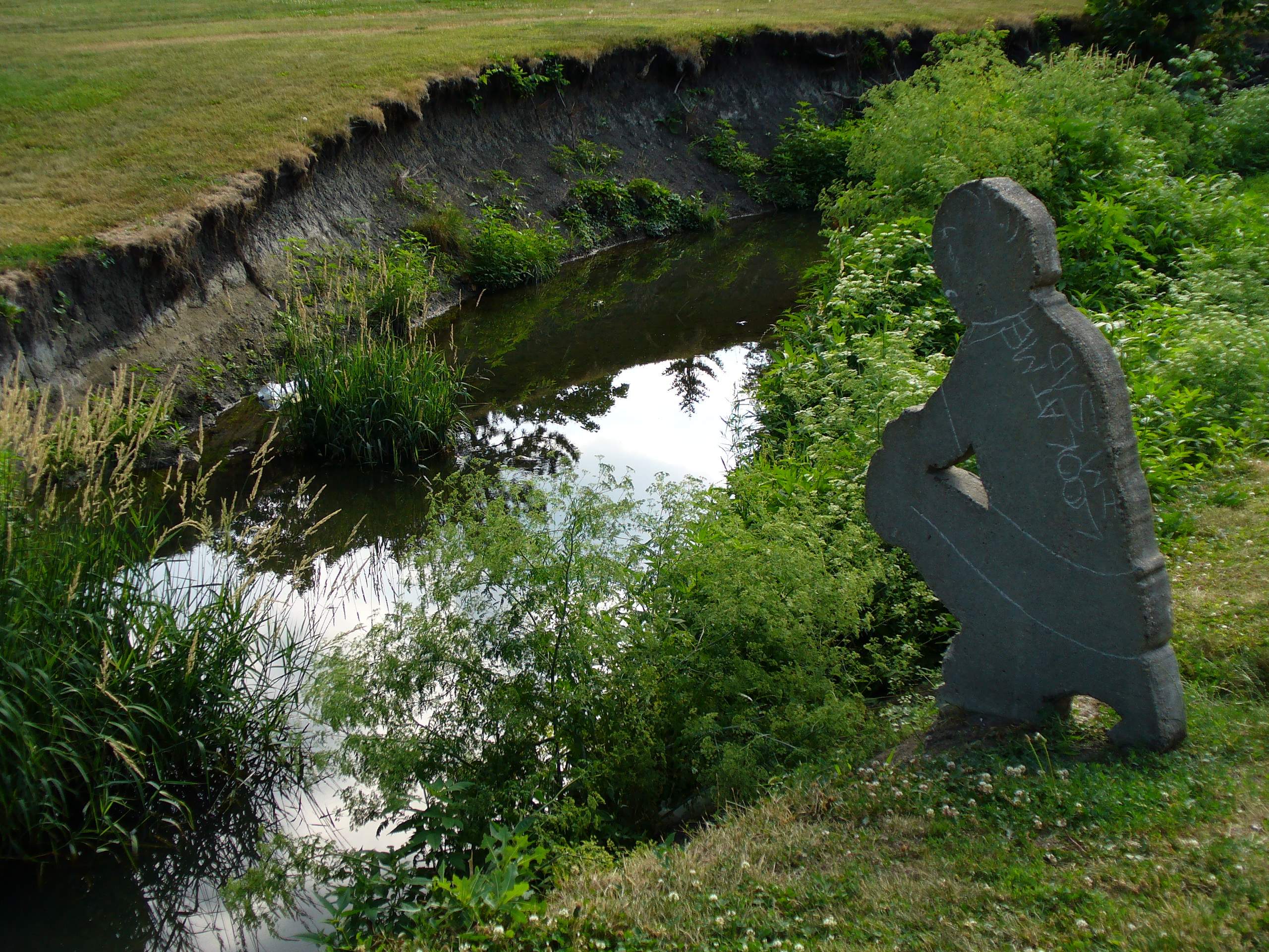 Concrete silhouette by Frank Gallo contemplates Boneyard in Scott Park. The concrete silhouettes were said to be Gallo's family, one of which was his daughter kneeling by the stream. They were said to be in poor condition and were disposed of by the park district in 2009.[1]